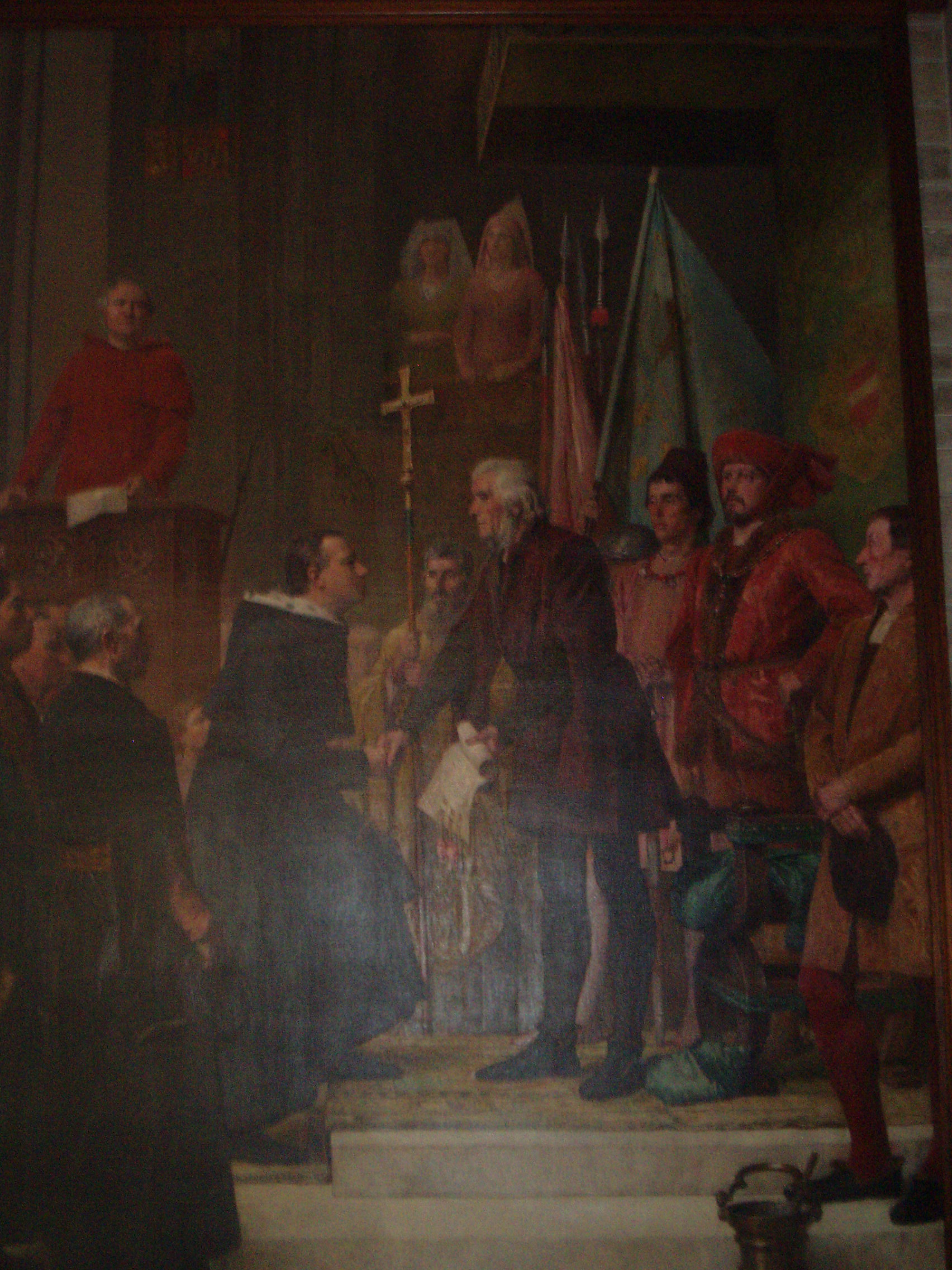 Hennebicq University Louvain stadhuis Leuven